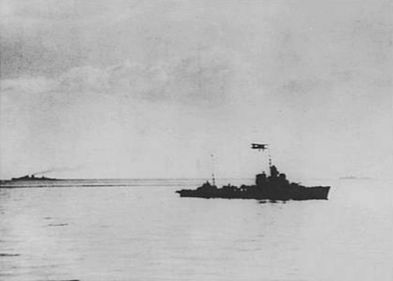 Starboard side view of the Italian destroyer Artigliere, stopped, abandoned and on fire forward after the Battle of Cape Passero. The light cruisers HMS Orion (85), left, and HMAS Sydney (D34) are visble in the background, a Fairey Swordfish is flying overhead. The Italian Navy had attempted to intercept an eastbund convoy from Malta on the night of 11/12 October 1940 with destroyers and torpedo boats which ran into the Royal Navy covering force which included the light cruiser HMS Ajax (22), the first radar-equipped RN ship in the Mediterranean Sea. Ajax stopped Artigliere, which surrendered and was scuttled on the next day by the heavy cruiser HMS York (90).